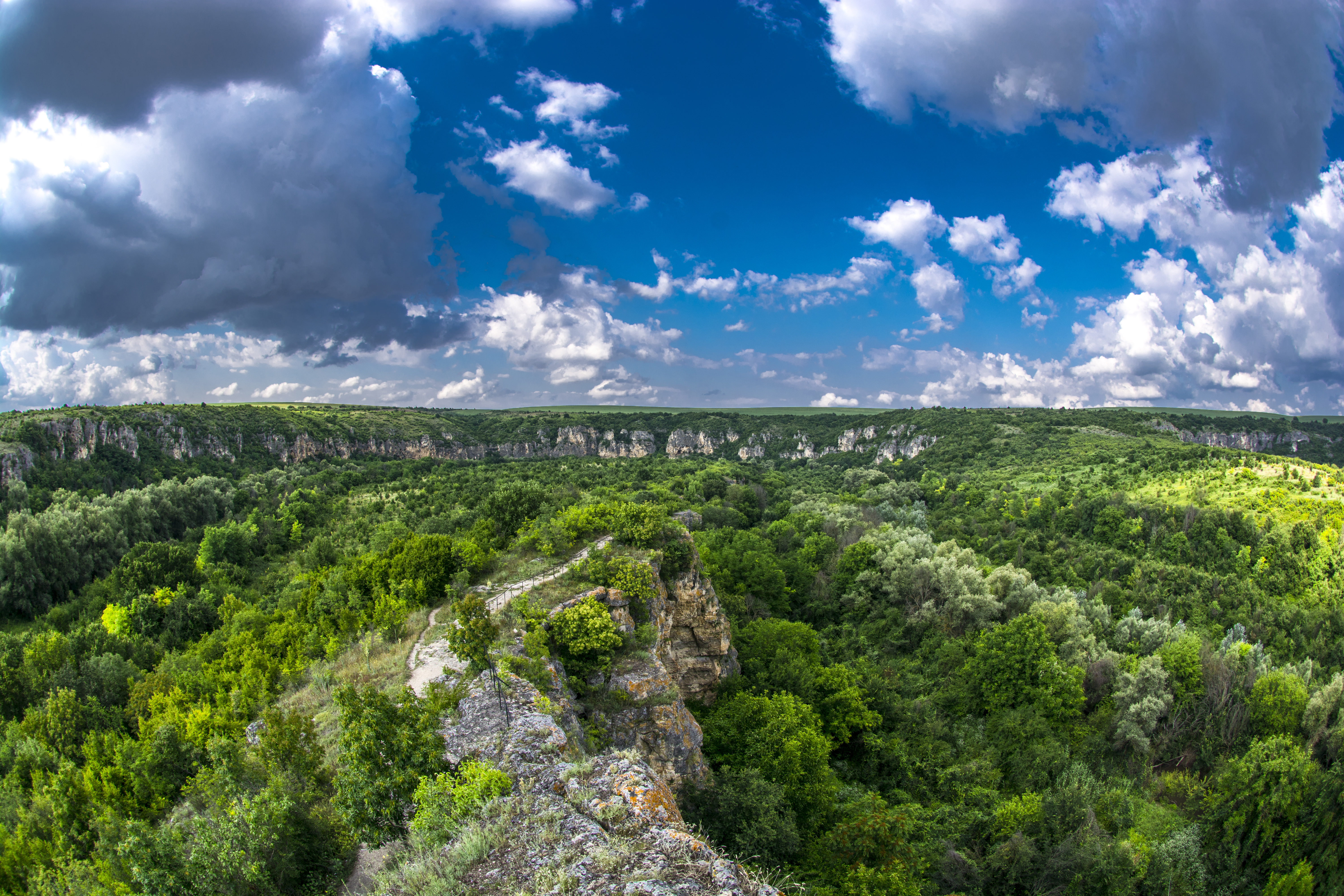 Rusenski Lom Nature Park, Bulgaria